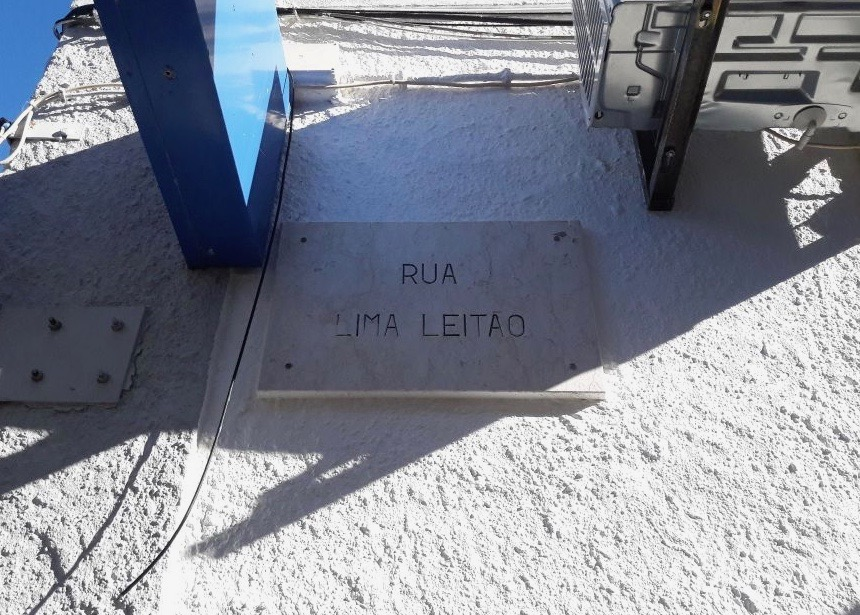 Street sign of Rua Lima Leitão, in the city of Lagos, in southern Portugal.